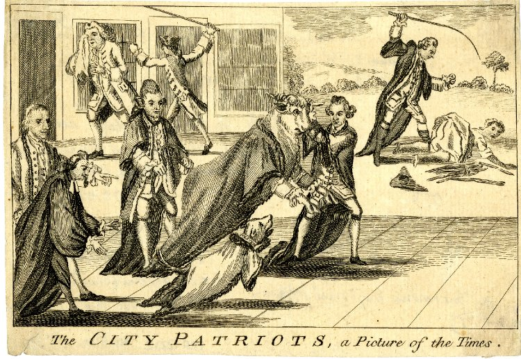 Satirical print on the quarrels internal to the group of supporters of John Wilkes in the City of London.